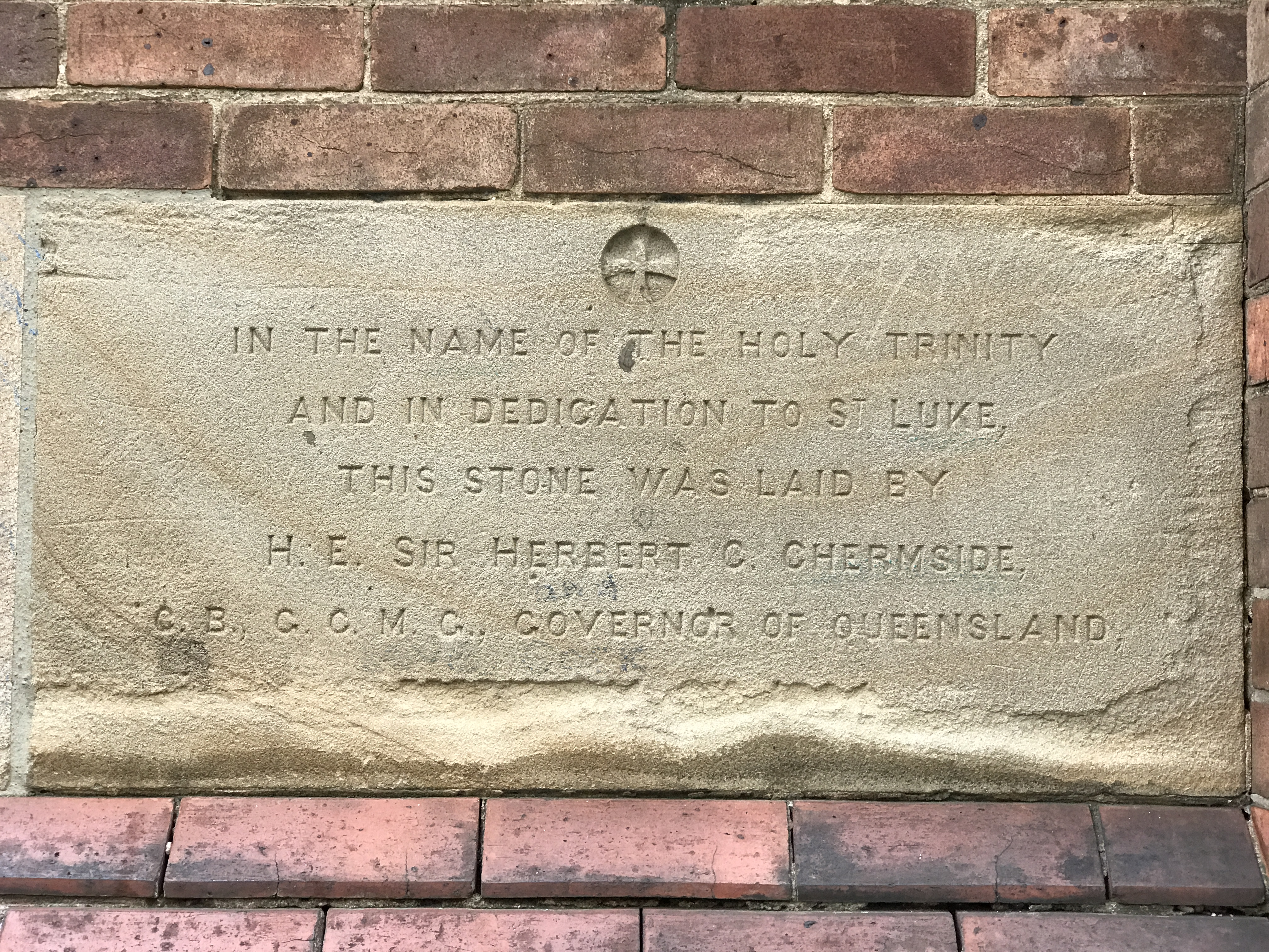 Dedication stone of St Luke's Church of England, Brisbane, Queensland